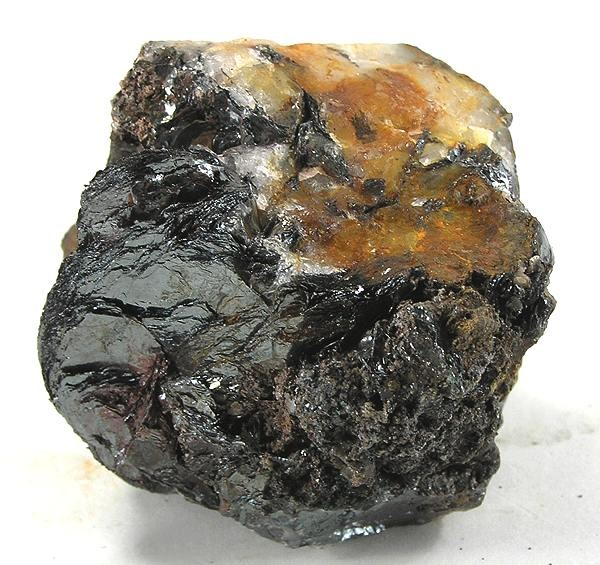 Hematite Locality: Lake Superior Mine (Hematite; Section 10 Exploration; Holmes-Section 16; Hard Ore; Section 21), Ishpeming, Marquette iron range, Marquette County, Michigan, USA (Locality at ) Size: 5.8 x 5.4 x 4.4 cm. This rare piece came out of the Seaman Museum collection (specializing in Michigan minerals). It is an example of the very unusual micaceous habit of hematite, where it forms thin, mica-like layers massed together in thick "books." This is a rare old-timer!